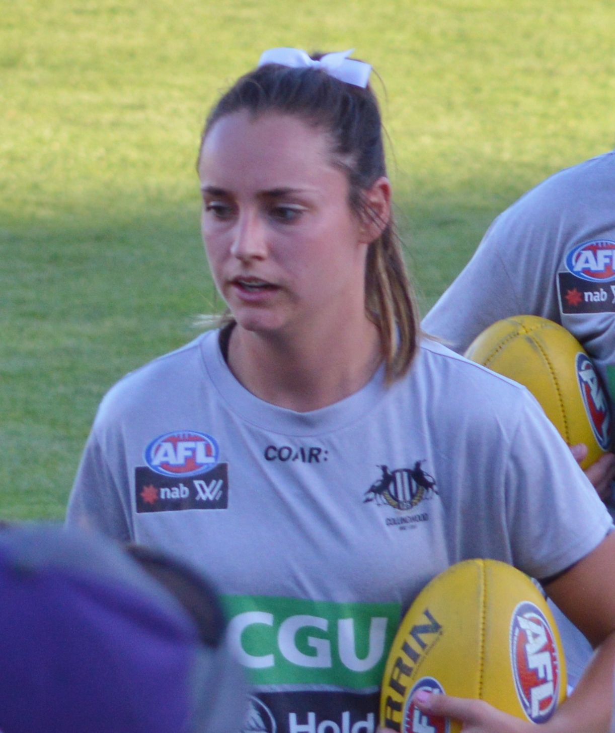 Nicola Stevens before the inaugural AFL Women's match in February 2017